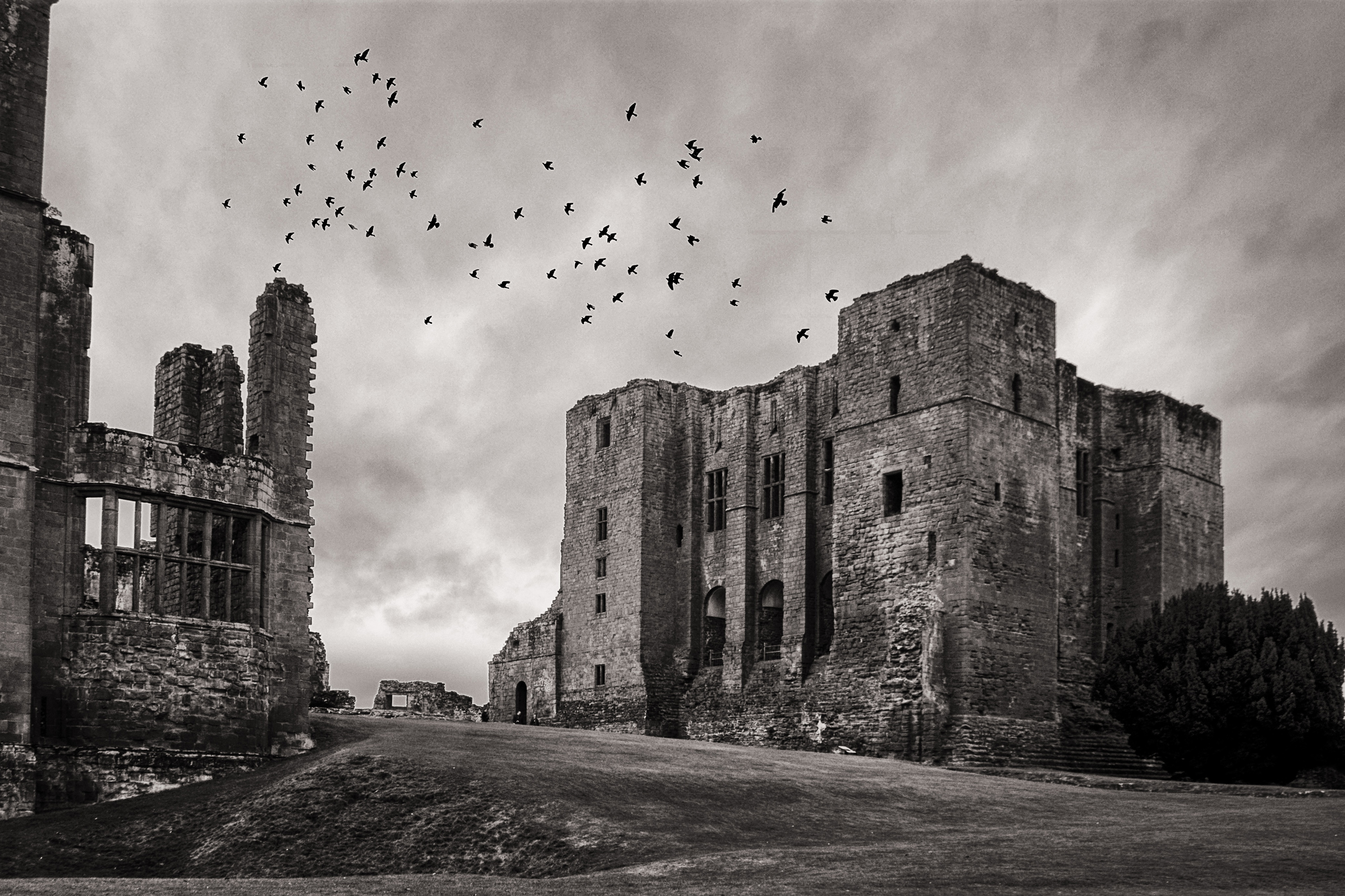 Kenilworth Castle on a blustery day